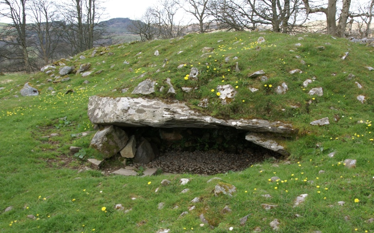 Dunchraigaig Cairn, Kilmartin Glen, Scotland - south east cist